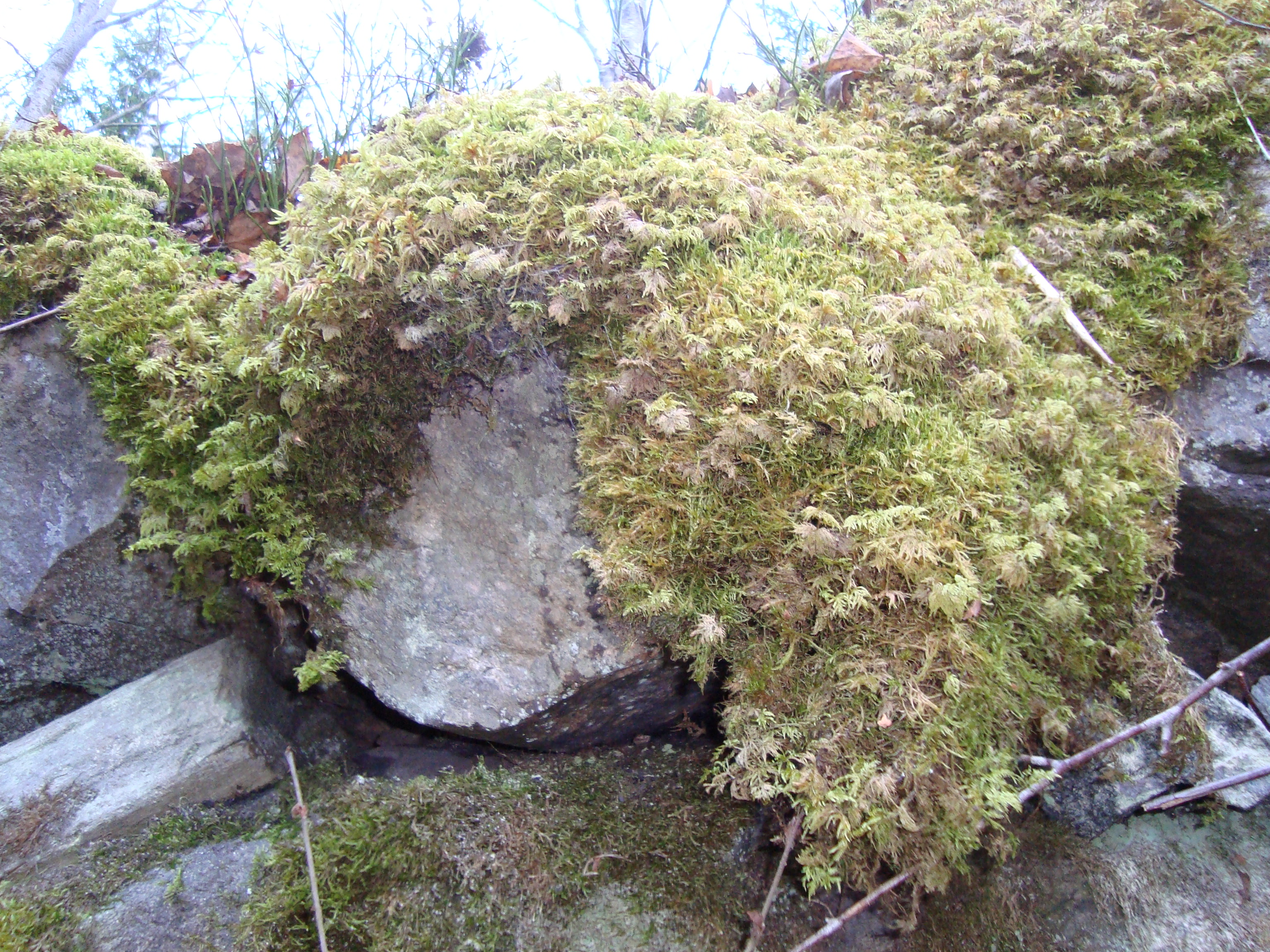 Hylocomium splendens and Hypnum cupressiforme on a wall belonging to a medieval iron smelter. Dräcke, Hedemora municipality, Sweden.